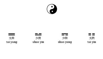 Si Xiang (Four Symbols, Four Phenomena, Four Images, ☯) digramms-yao